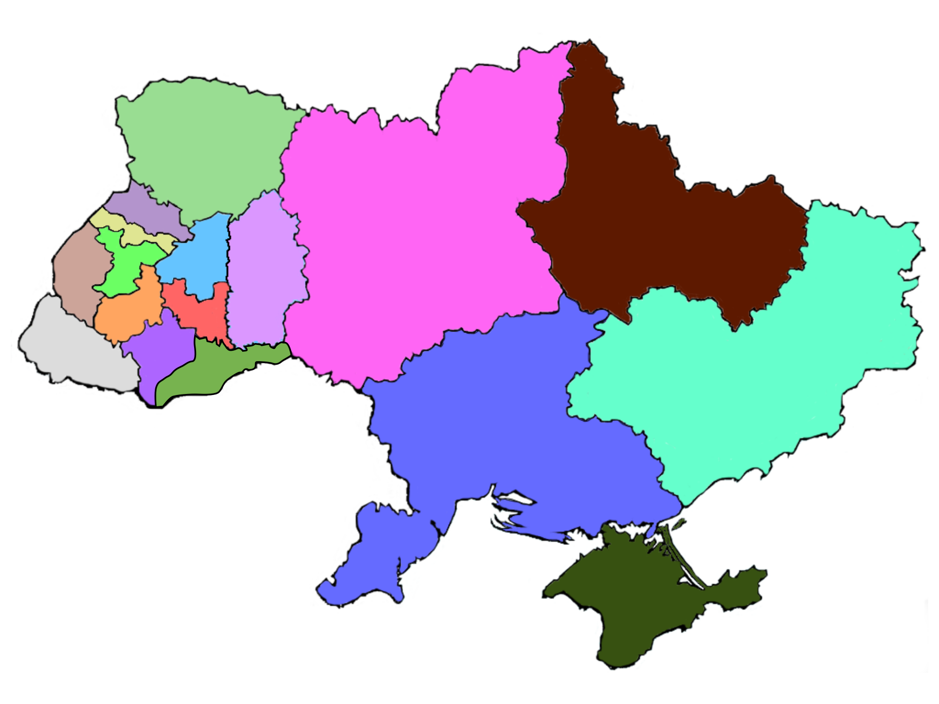 a fairly crude map of the territorial structure of the Ukrainian Greek Catholic Church within Ukraine. Selfmade based on an empty contour map of Ukraine (Image:Map_of_Ukraine_political_simple_blank.png) and information from printed sources. Archeparchy of Kyiv 1 2 3 4 5 6 7 8 Exarchate of Donetsk Exarchate of Odesa-Crimea Exarchate of Lutsk Eparchy of Mukachevo Notes: The Eparchy of Mukachevo is not a part of the Ukrainian Greek Catholic Church but a distinct Ruthenian Catholic Church.